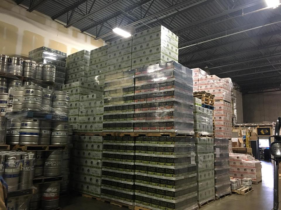 Packaged product at Two Brothers Warrenville location.